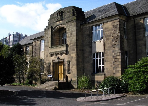 Engineering building, University of Edinburgh One of the original King's Buildings dating from 1929-32.